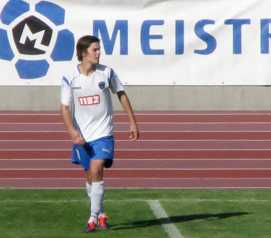 Estonian football player Eron Krillo playing against JK Nõmme Kalju